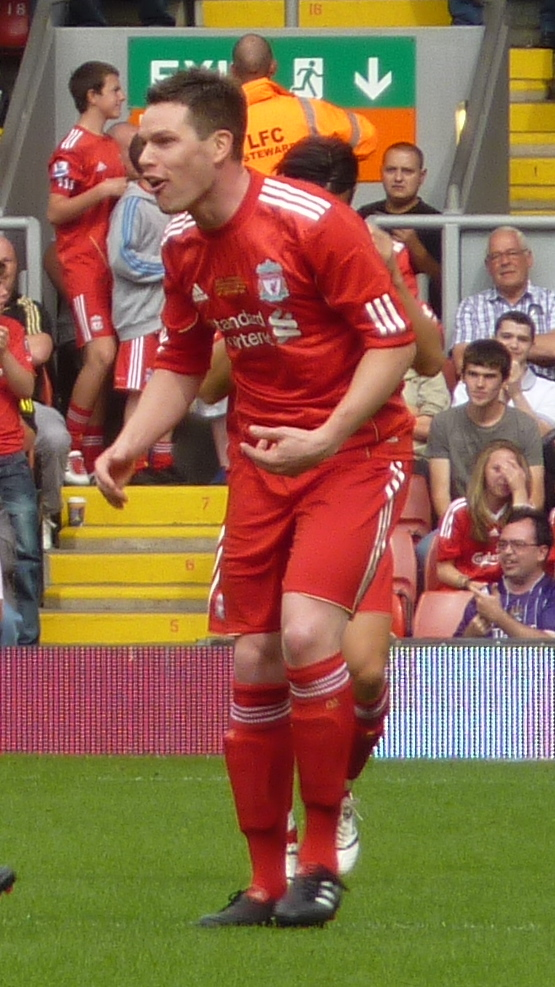 Irish football player Steve Finnan during Jamie Carragher Testimonial Match.